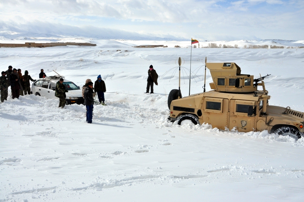 Islamic Republic of Afghanistan. Ghor Province under a deep winter.